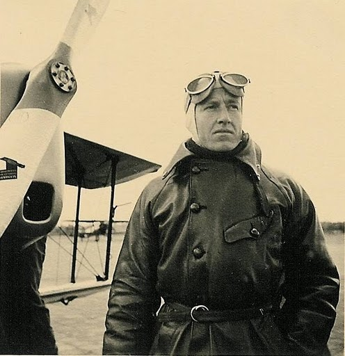 Lieutenant Gerben Sonderman, Luchtvaart Afdeeling, in front of the Bücker Jungmann. period photo most likely taken 1938, Soesterberg. Note the Schwarz propeller.